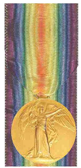 Medal of the UK in the "court style"